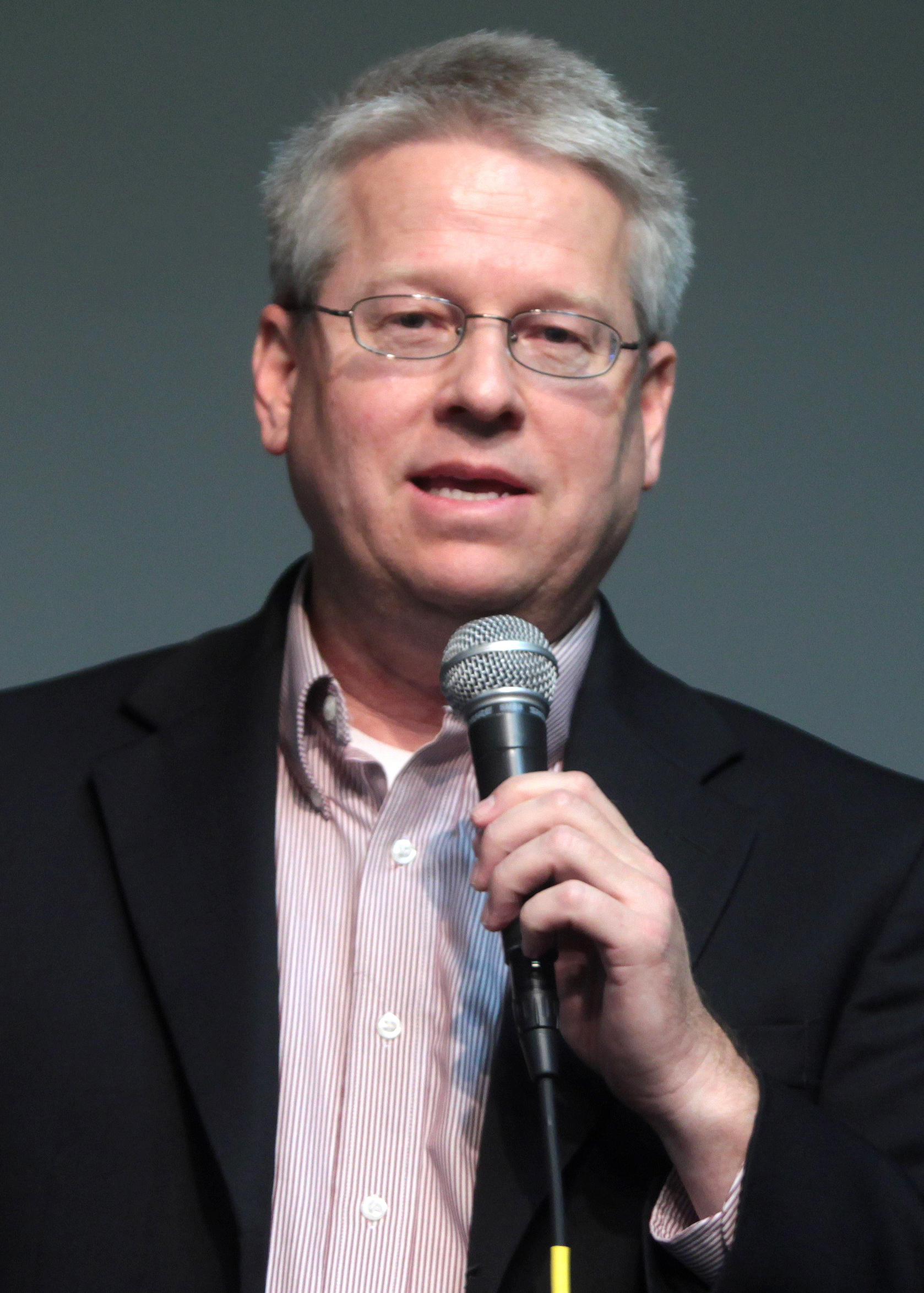 Eddie Farnsworth speaking at an event in Mesa, Arizona.